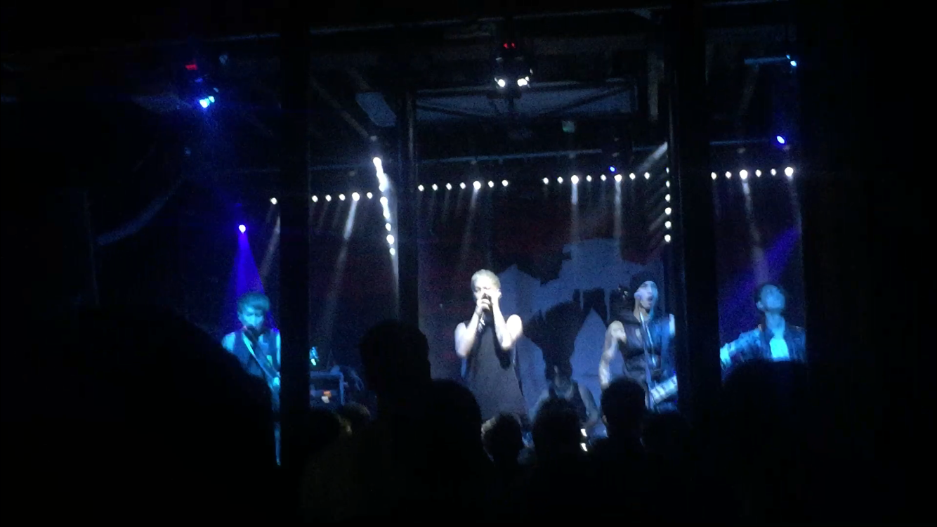 Japanese rock band Coldrain performing live in The Fleece in Bristol in 2018.